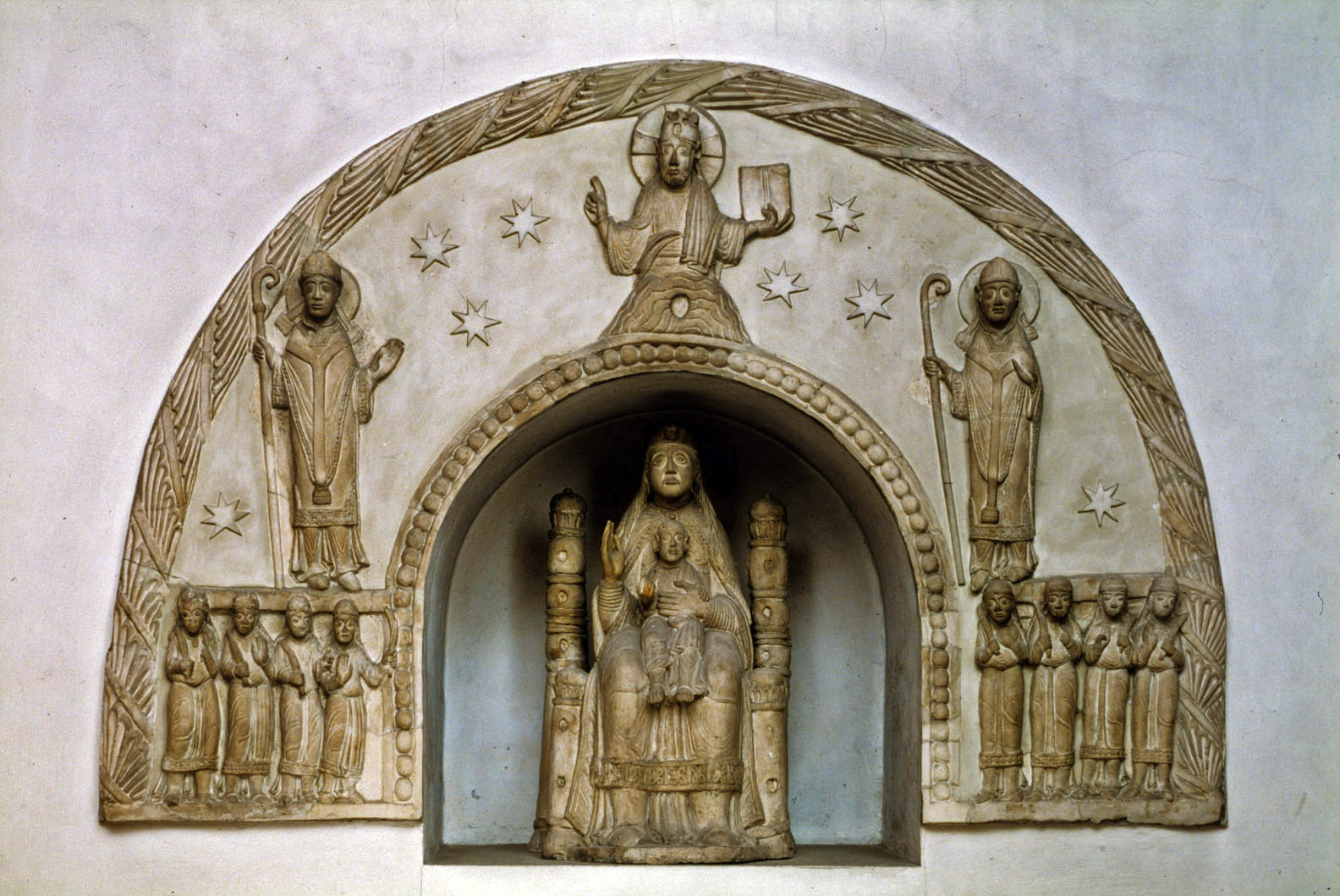 Madonna - stucco retable, St. Mary's Cathedral, Erfurt (ca. 1160)